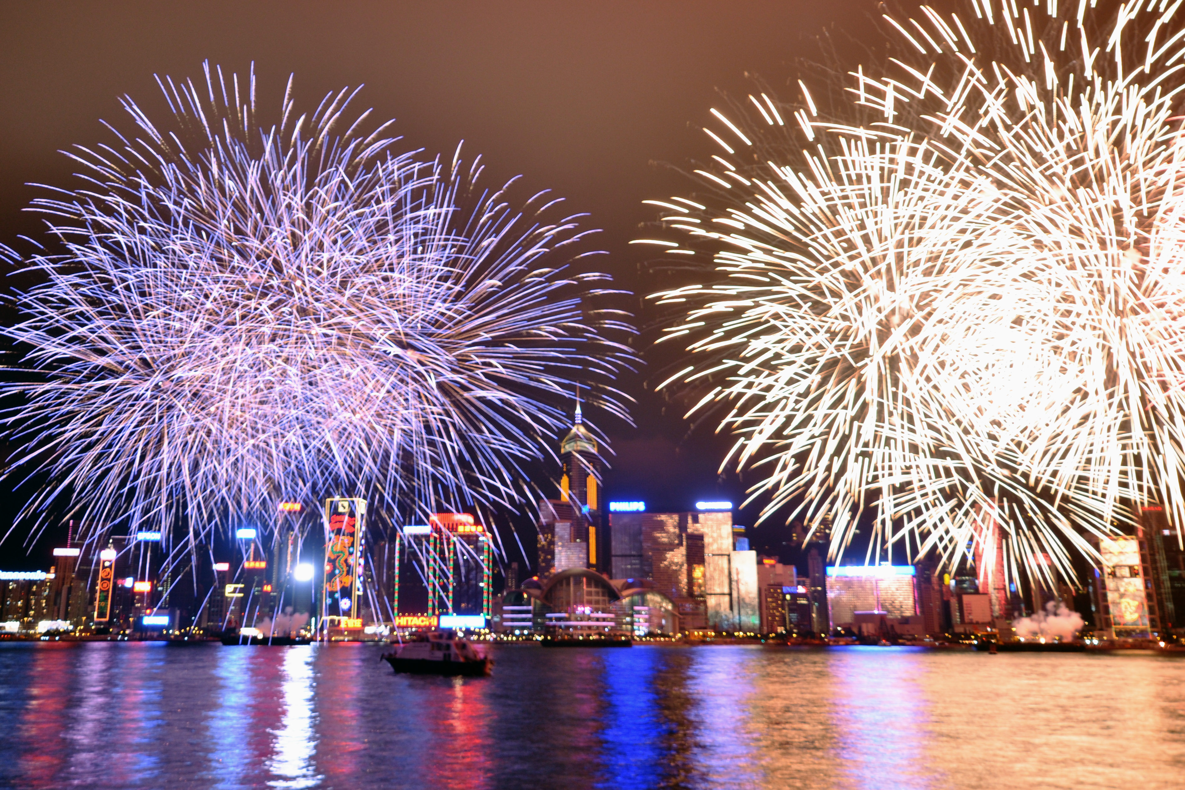 The traditional, and famous, Chinese New Year Firework Display over Victoria Harbour was a spectacular event lasting 25-minutes. Tens of thousands of people lined the shores of Kowloon and Hong Kong Island up to 4-hours early in order to get the best views.